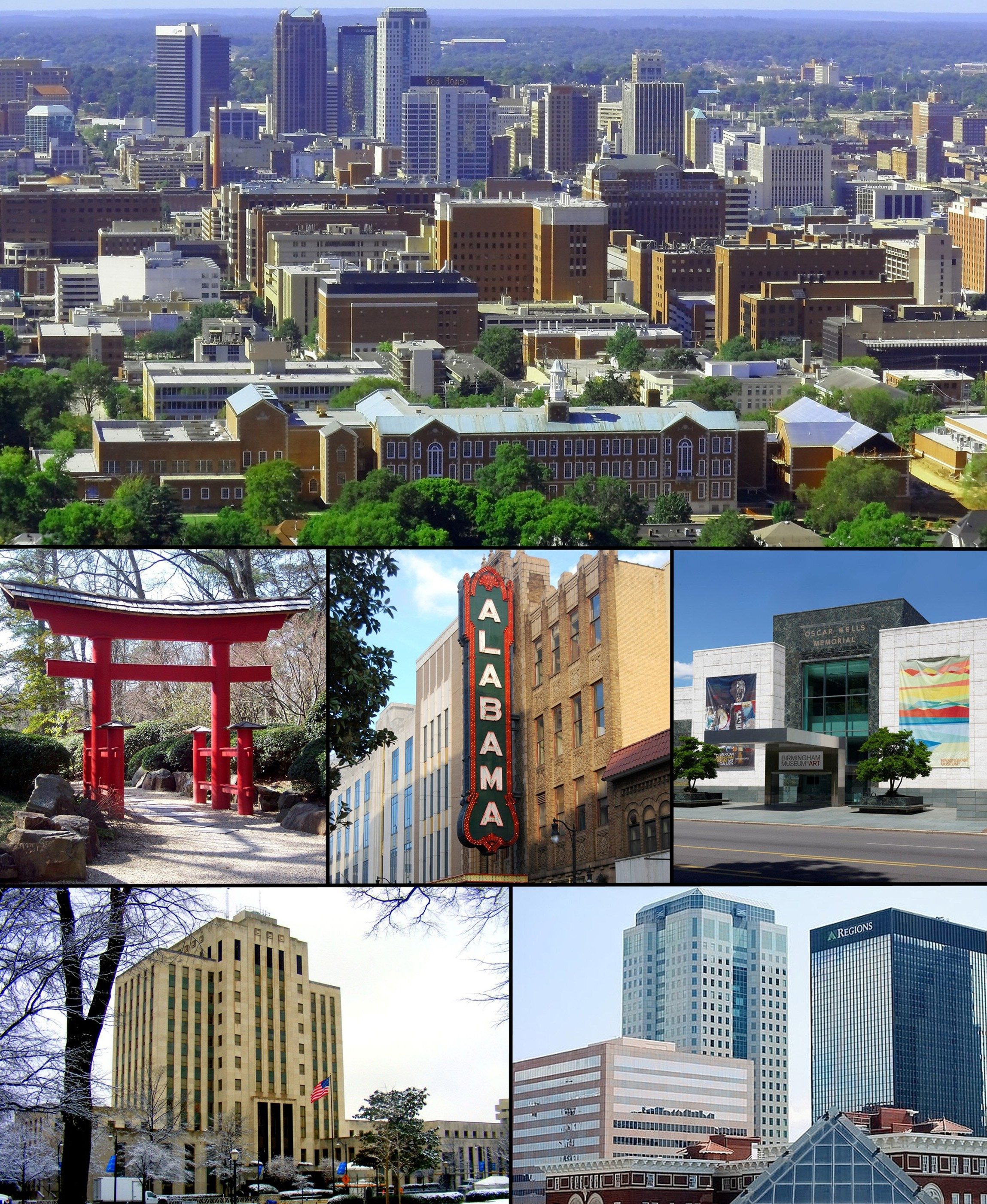 Birmingham, Alabama Skyline from the Red Mountain Torii at the Birmingham Botanical Gardens Alabama Theatre Birmingham Museum of Art Birmingham City Hall Downtown Birmingham